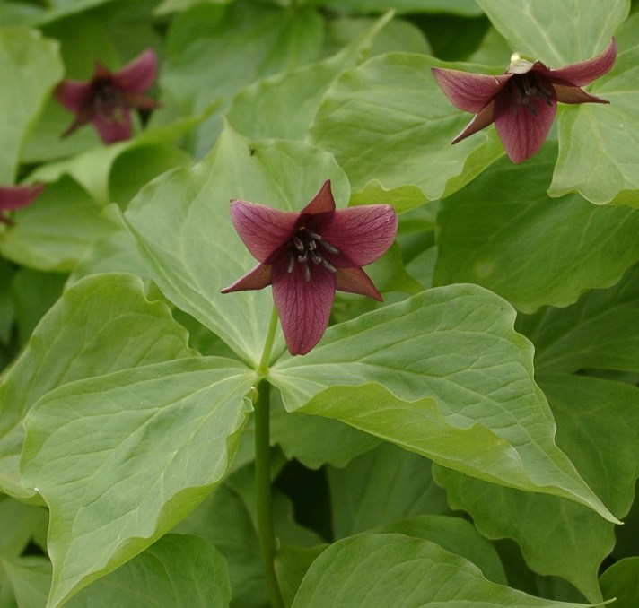 Trillium erectum